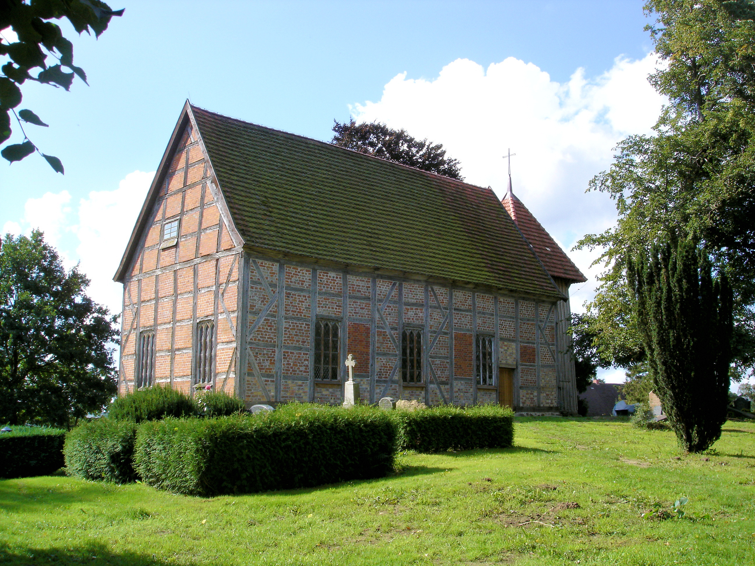 Church in Kloster Wulfshagen, Mecklenburg, Germany